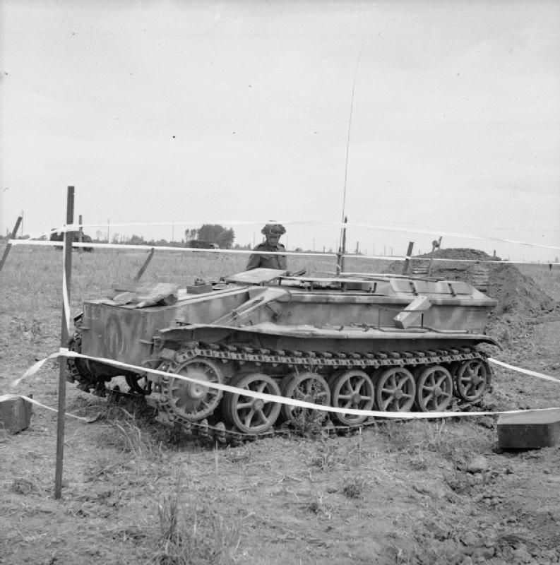 The British Army in Normandy 1944 German remote-controlled tracked vehicle used to deliver a demolition charge, captured by 51st Highland Division troops at Benouville, 27 June 1944.